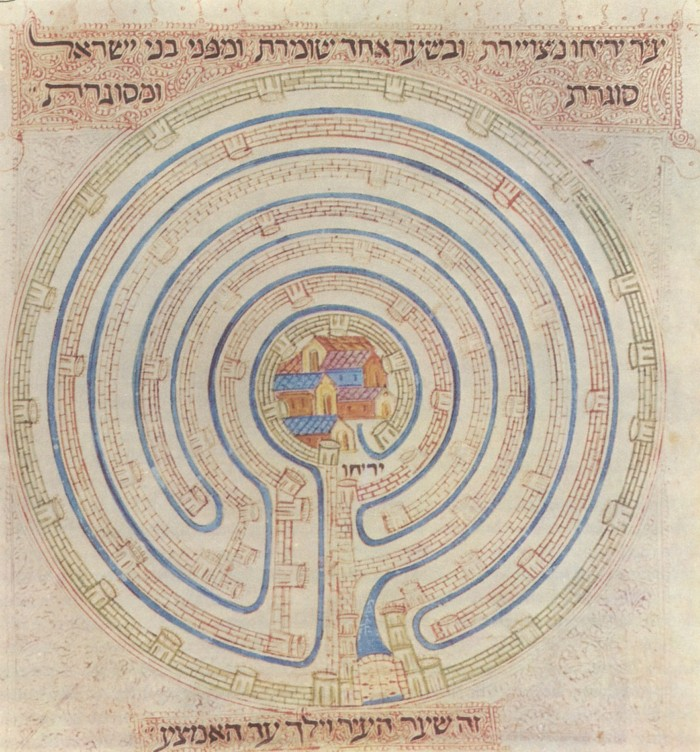 Walls are depicted in well-known labyrinth pattern.